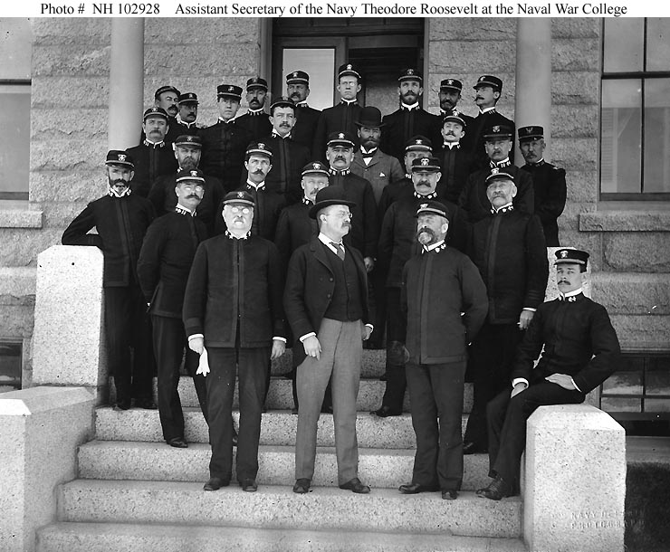 Assistant Secretary of the Navy Theodore Roosevelt with faculty and class members at the Naval War College, Newport, Rhode Island, circa 1897. Caption: Assistant Secretary of the Navy Theodore Roosevelt (front, center) At the Naval War College, Newport, Rhode Island, circa 1897, with the college's faculty and class members. To the right of the Assistant Secretary is Commander Caspar F. Goodrich, USN, War College President. The officer to Roosevelt's left is probably Commodore Rush R. Wallace, Commandant, Newport Naval Station.